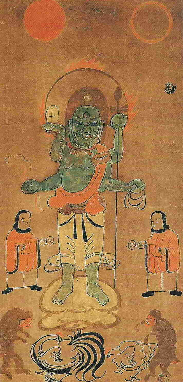 Japanese god in folklore